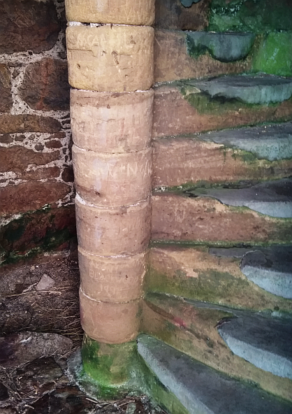 Hopetoun Monument (East Lothian): internal helicoidal staircase